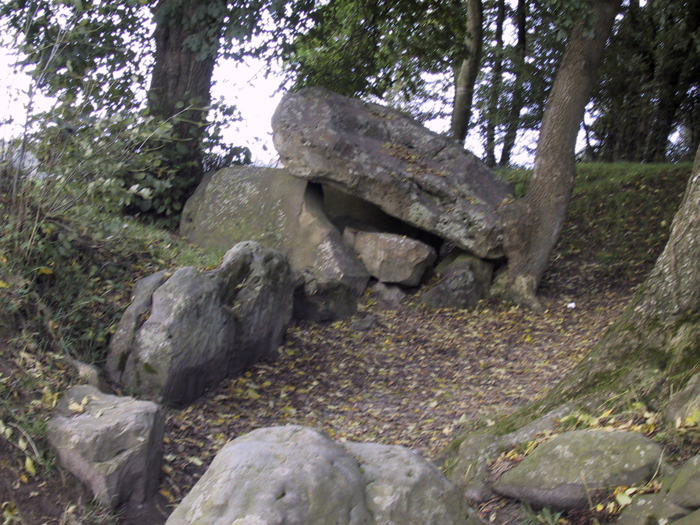 Creative Commons CC-BY-SA. photo personnelle